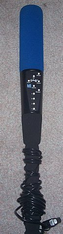 A special BatterUP controller made for the Super Nintendo Entertainment System